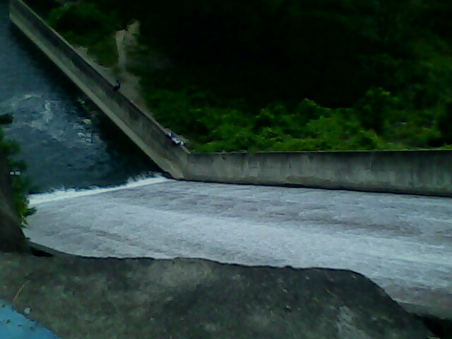 Dam in the Cumaripa Valley, Yaracuy, Venezuela.